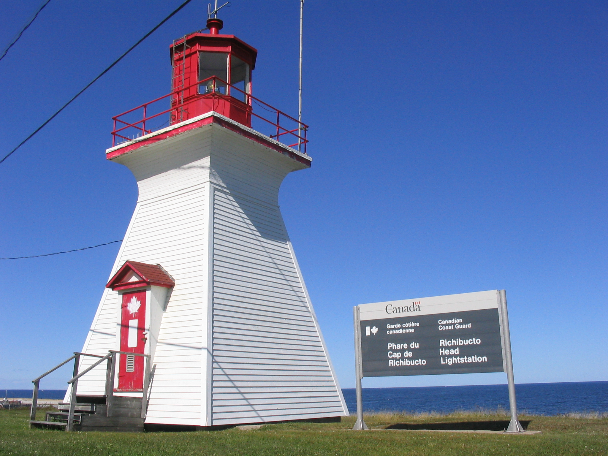 Richibucto Head Lightstation